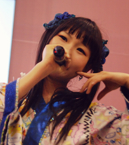 dempagumi.inc // でんぱ組.inc Live in Jakarta // KOKORONOTOMO